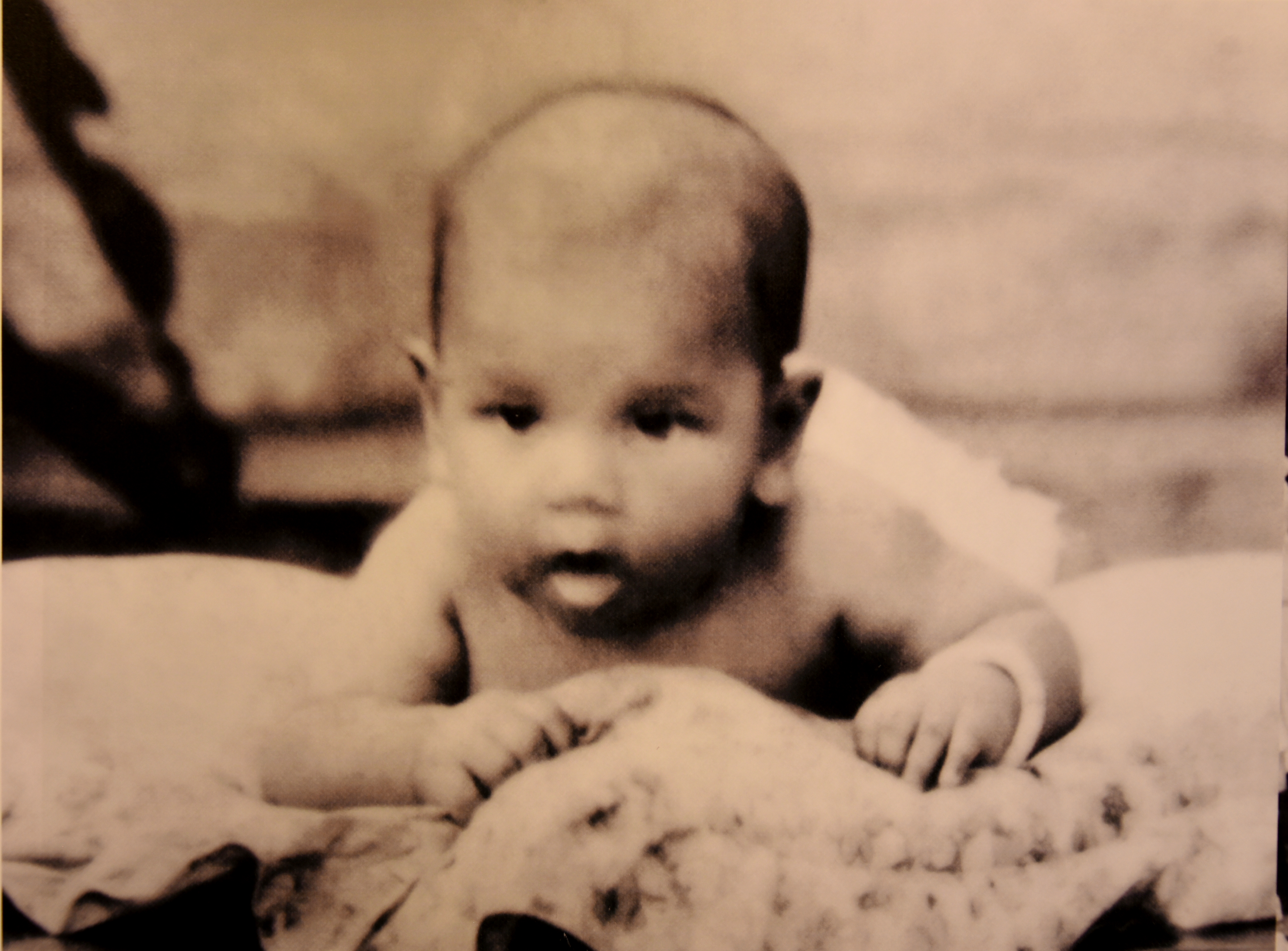 Tuanku Jaafar ibni Almarhum Tuanku Abdul Rahman at the age of 6 months, January 1923. Unknown photographer. The original image is © the Tuanku Ja'afar Royal Gallery, Seremban, Negeri Sembilan, Malaysia.